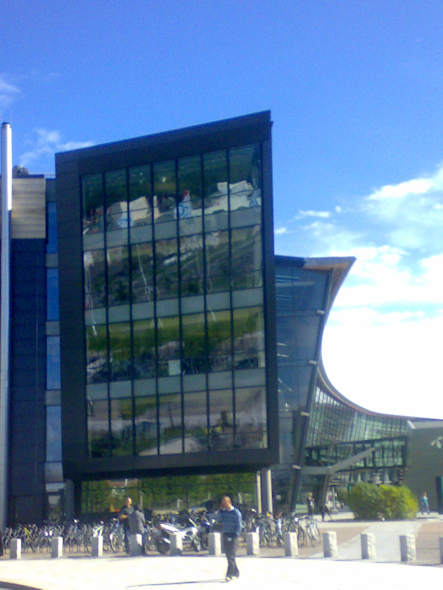 Telenor hq, located at Fornebu, Bærum, Norway